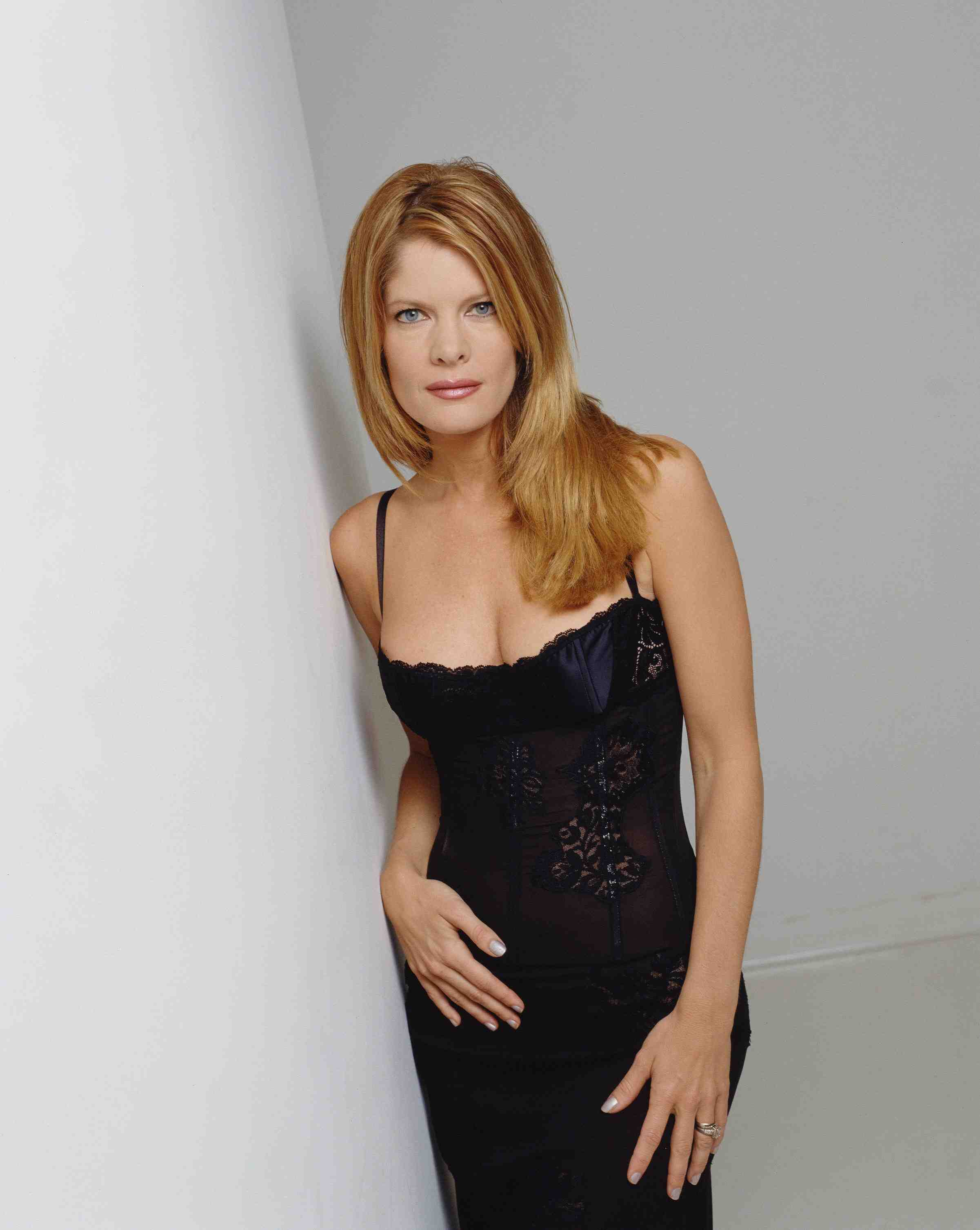 Michelle Stafford of The Young and the Restless